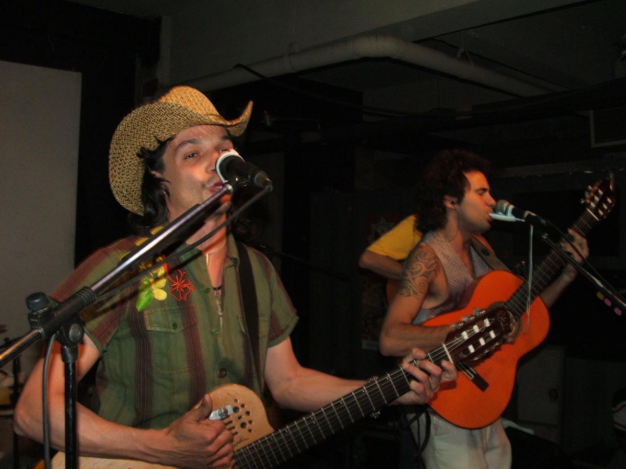 El Ratón y El Canijo from the Spanish band Los Delinqüentes. Live at Mexico City.